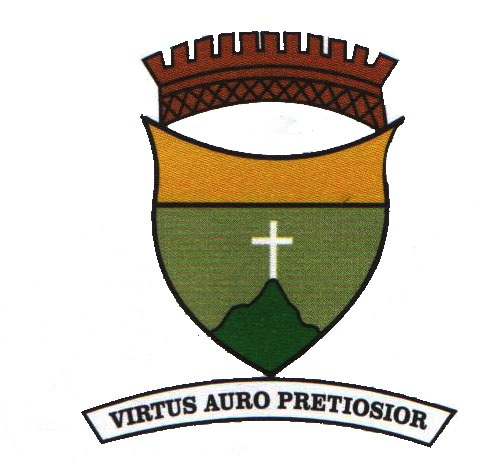 Coat of town Itaverava